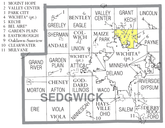 Map of Sedgwick County, Kansas highlighting Kechi Township